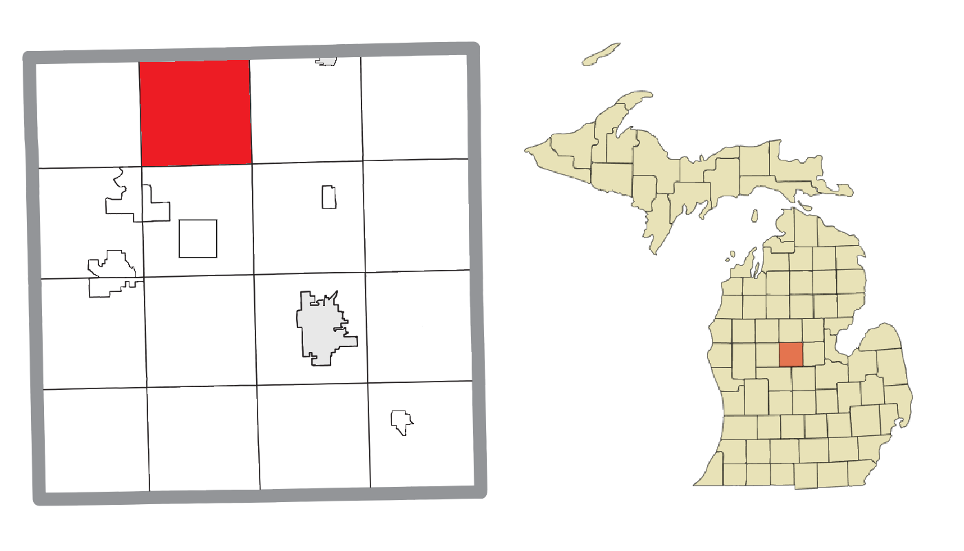 Gillmore Township (Isabella), MI